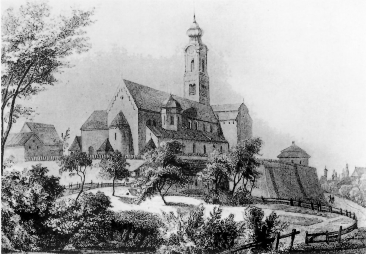 St. Peter, Straubing, from the north east. Engraving, Jobst Riegl, ca. 1860.